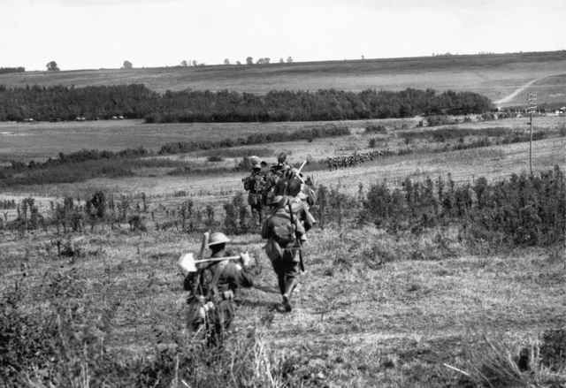 Australian 5th Pioneers around Picardie, on the Somme, September 1918